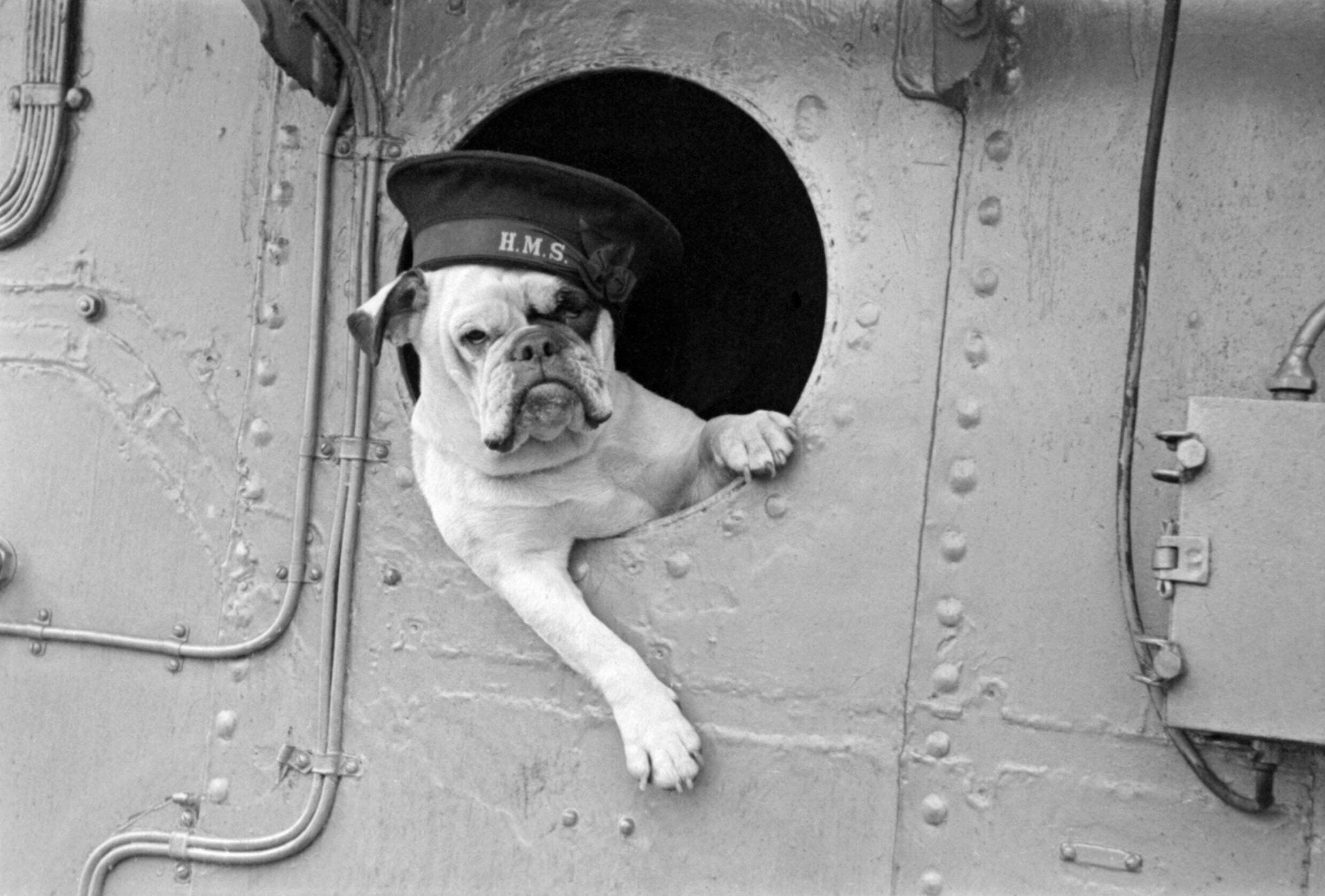 "Venus" the bulldog mascot of the destroyer HMS VANSITTART, 1941. "Venus" the bulldog mascot of the destroyer HMS VANSITTART.